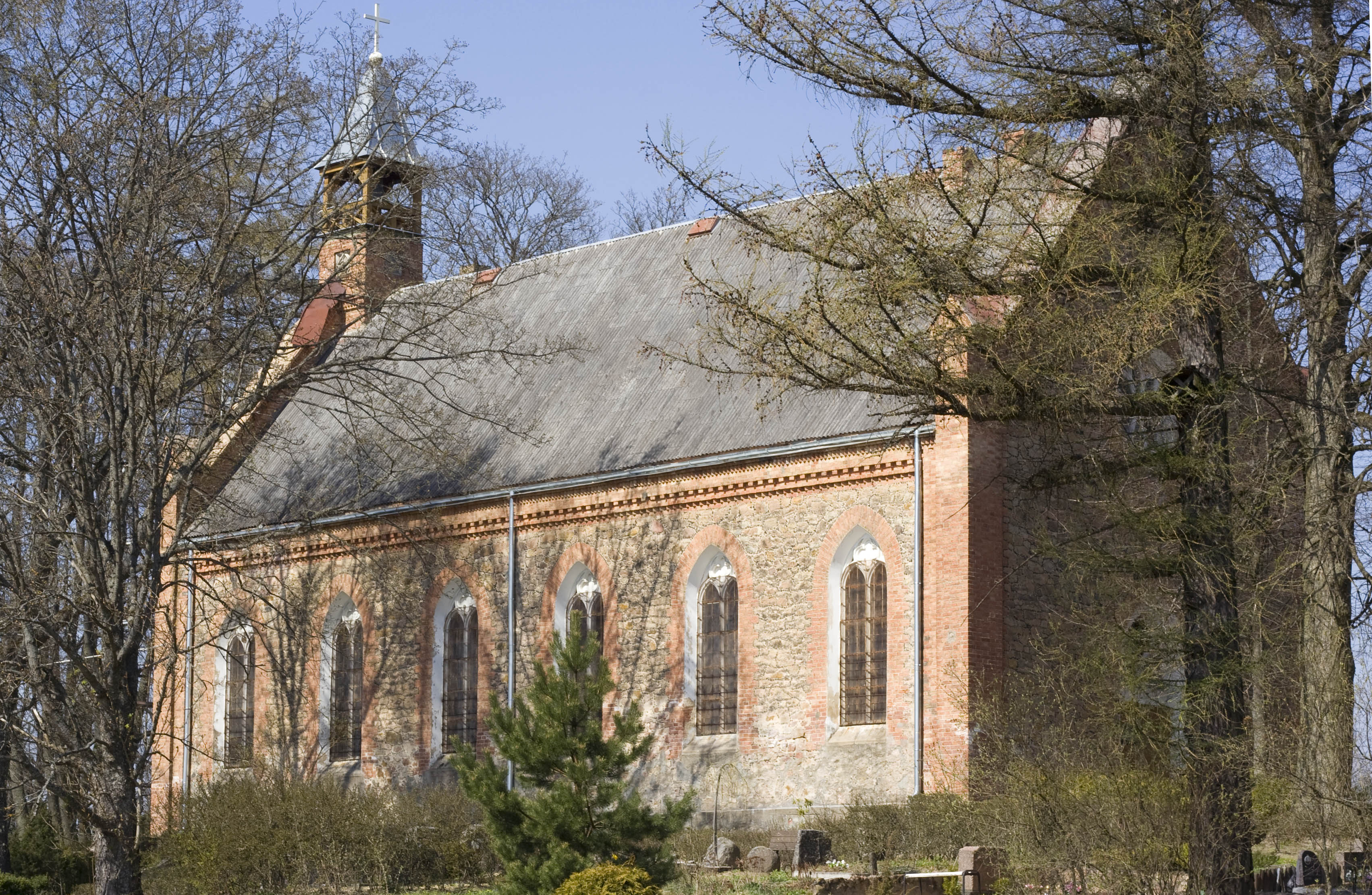 Dalbe's Lutheran church (built in 1869). Located in Ozolnieki municipality, 15 kilometers from city Jelgava, Latvia.